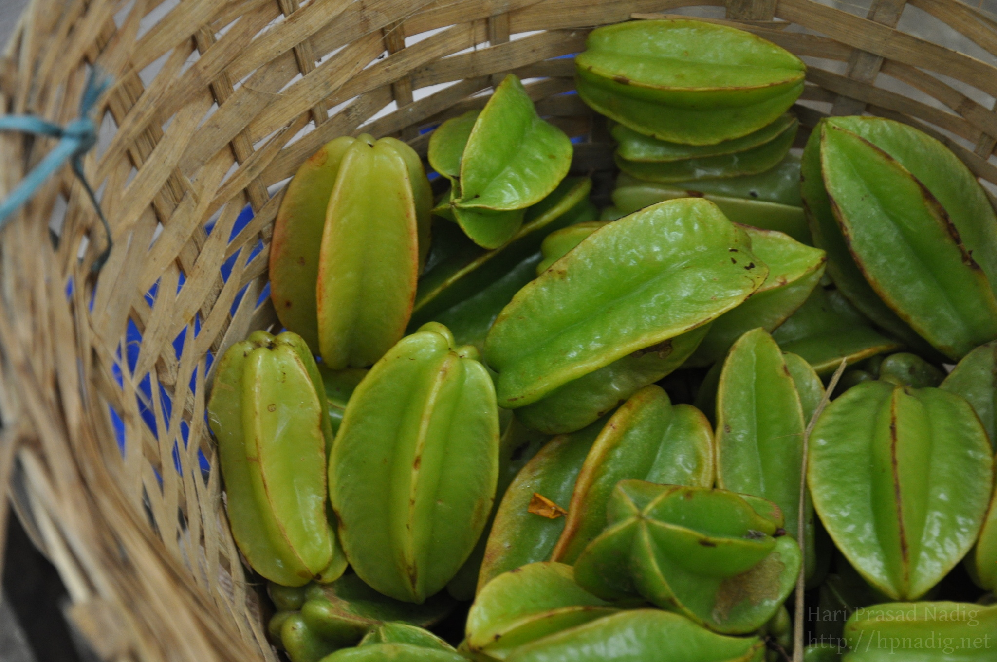 Carambola, also known as starfruit, is the fruit of Averrhoa carambola, a species of tree native to the Philippines, Indonesia, Malaysia, India, Bangladesh and Sri Lanka.